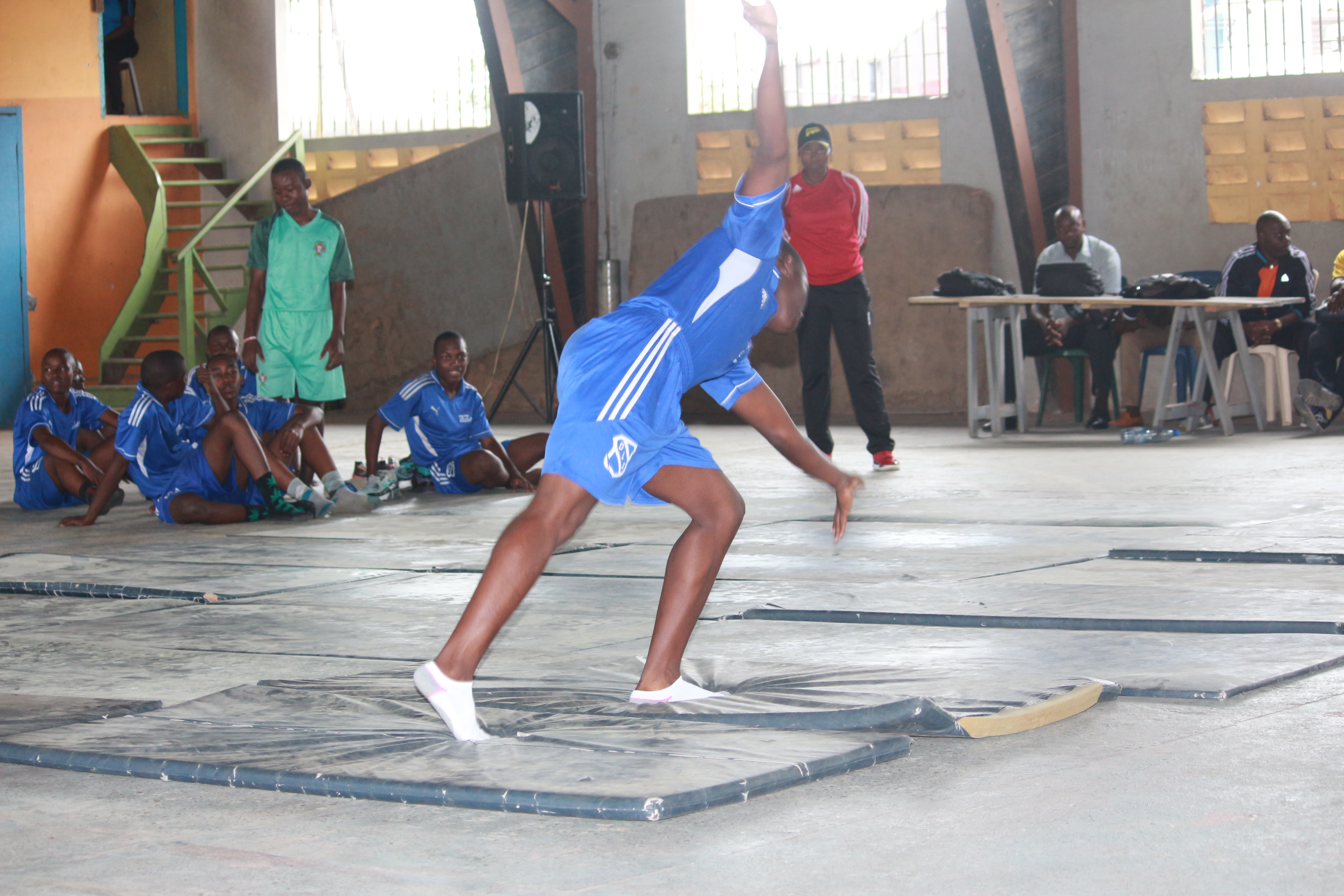 Les élèves pendant le cours d'éducation physique et sportive dans un collège de la ville de Douala This is an image of "African people at work" from Cameroon